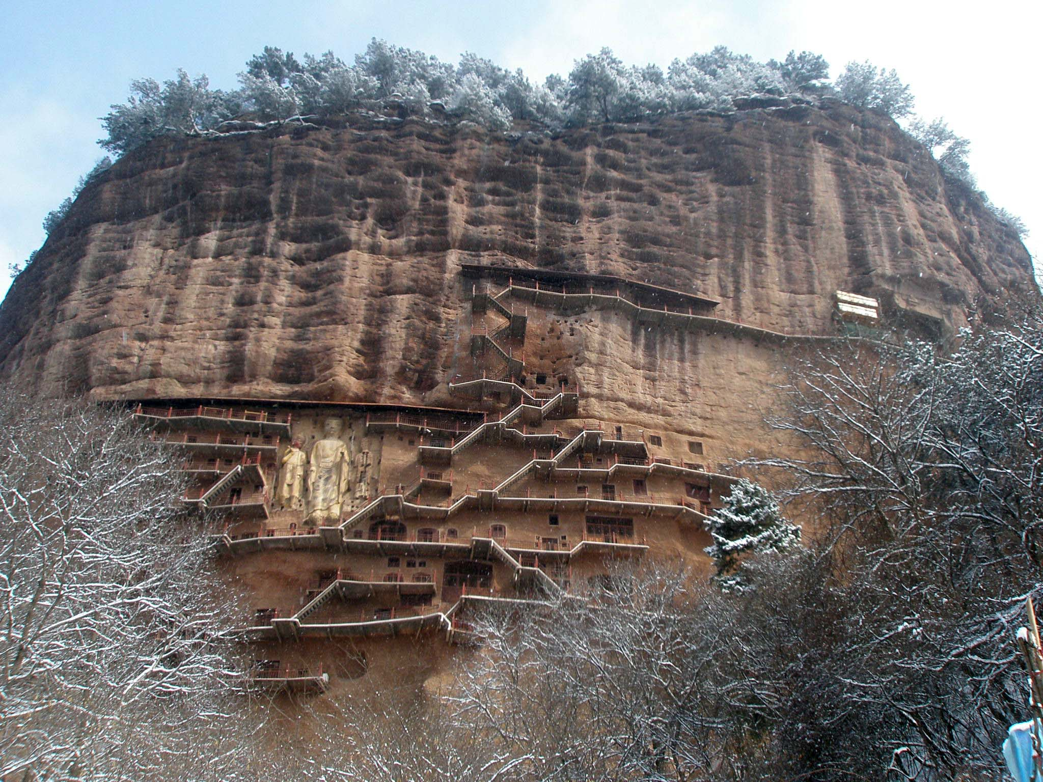 View of the entire Maji hill, with all its grottoes, sculptures and stairs.